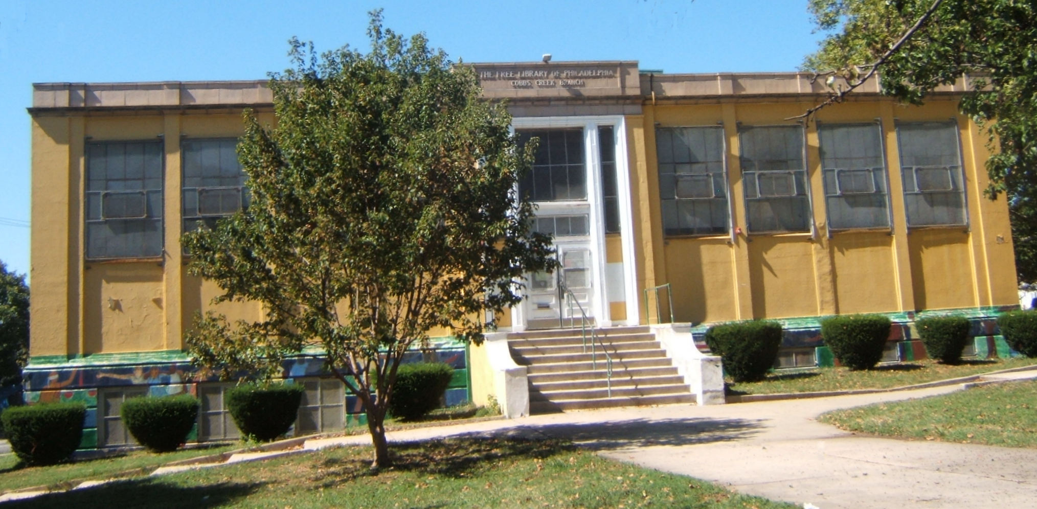 Free Library of Philadelphia, Blanche A. Nixon/Cobbs Creek Branch, 5800 Cobbs Creek Boulevard, Philadelphia, PA 19143